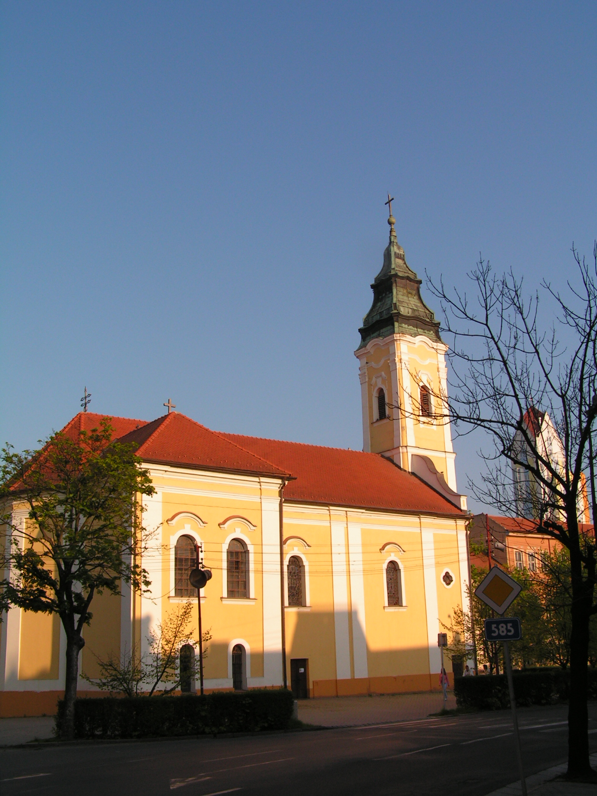 Roman Catholic Church of the Visitation in LučenecSlovenčina: Rímskokatolícky kostol Navštívenia Panny Márie v Lučenci